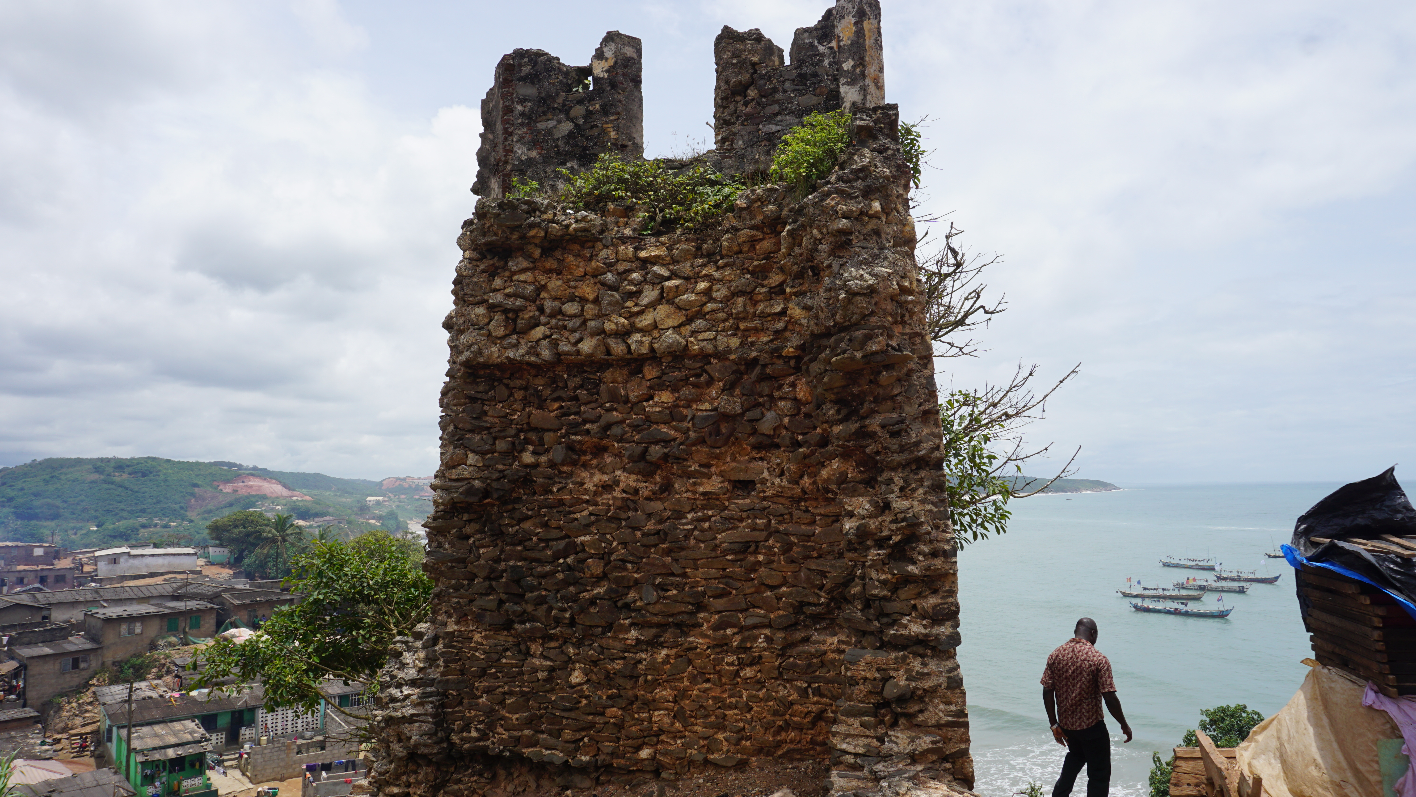 Wall of Fort Nassau